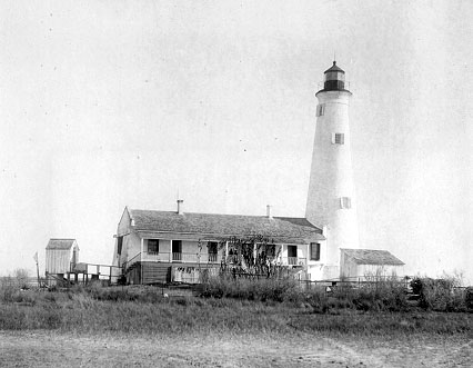 Downloaded from U.S. Coast Guard Historic Light Station Information & Photography - Florida "no photo number/caption/date; photographer unknown."